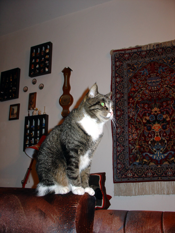 Indoor cat Macek from Prague, Czech Reublic